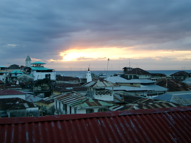 View over the center of Stone Town, Zanzibar at sunset.